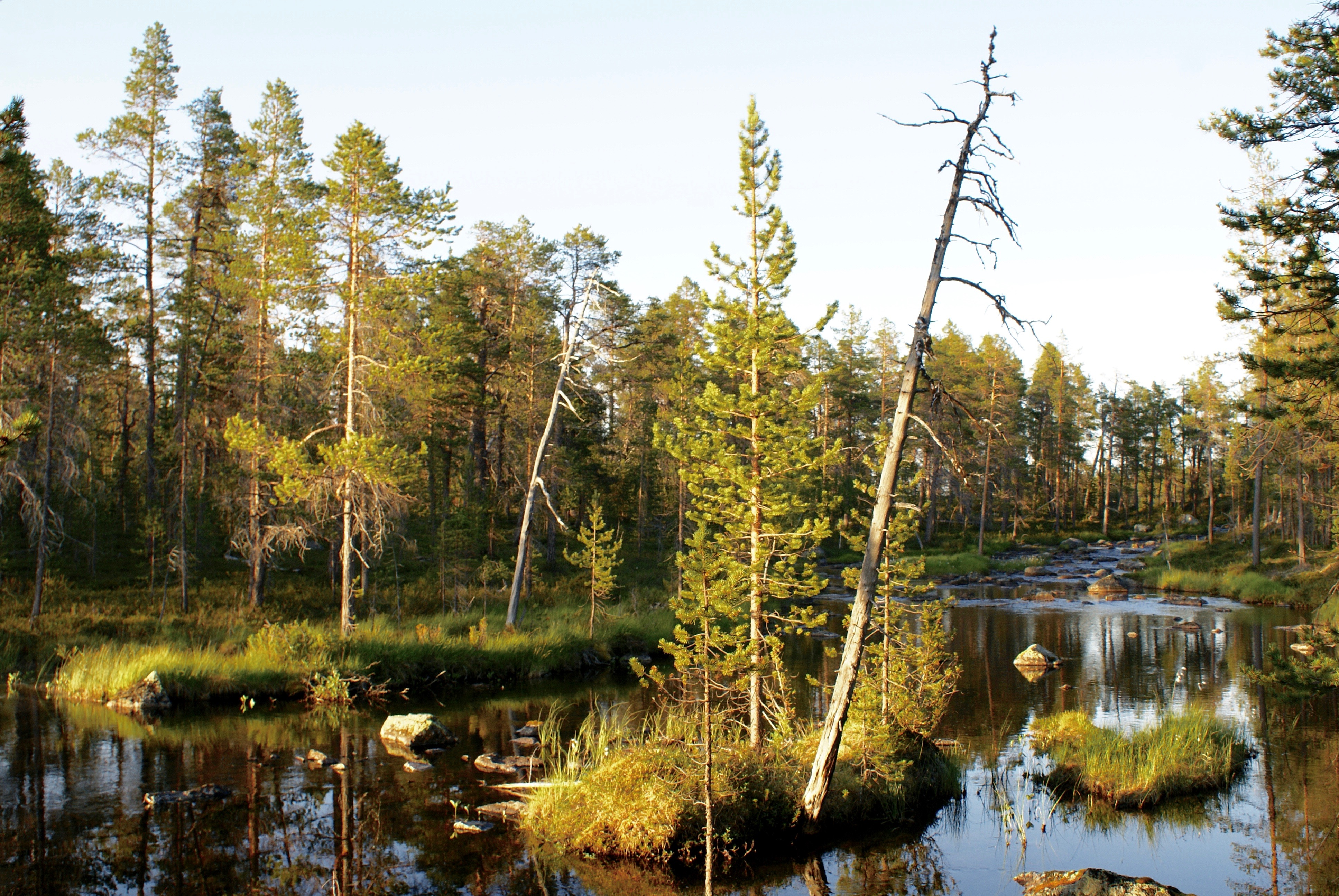 River Kapperijoki in the Vätsäri Wilderness Area, Inari, Finland